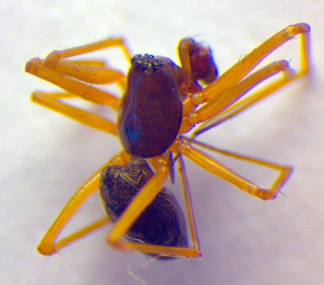 Bathyphantes nigrinus